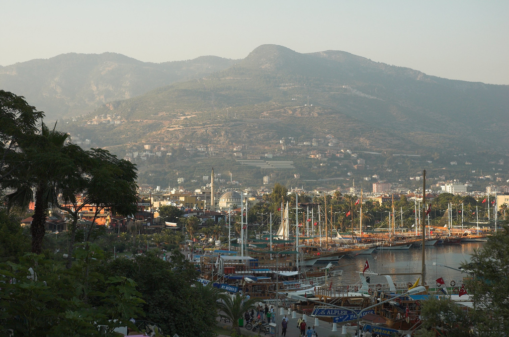 Sailing boats in the harbor of Alanya